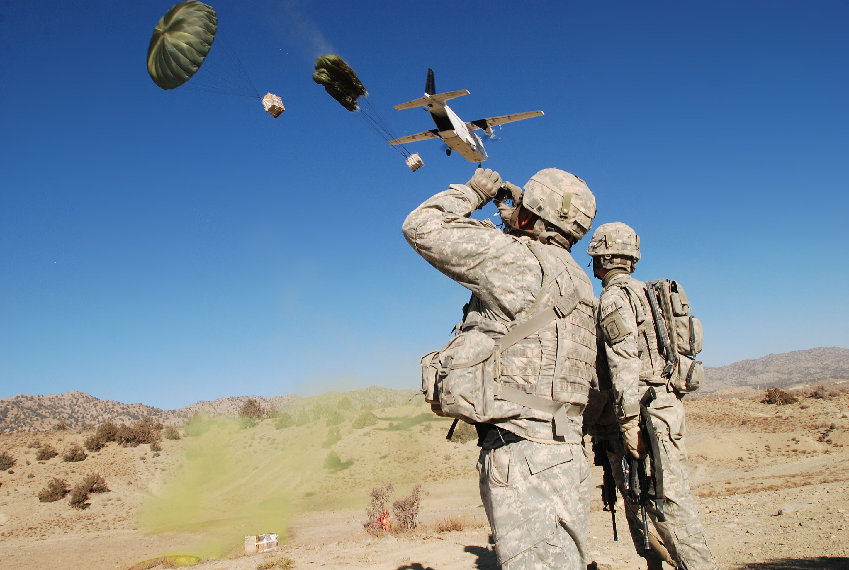 A paratrooper from 1st Battalion (Airborne), 503rd Infantry Regiment, 173rd Airborne Brigade, watches as an aircraft flies overhead while dropping supplies in Paktika Province, Afghanistan, Nov 9. (U.S. Army photo by Spc. Micah E. Clare)